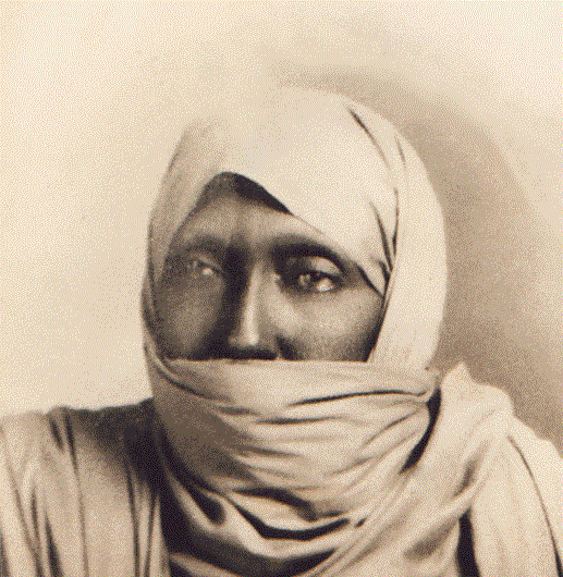 Osman Yuusuf Keenadiid, inventor of the Osmanya writing script for the Somali language.